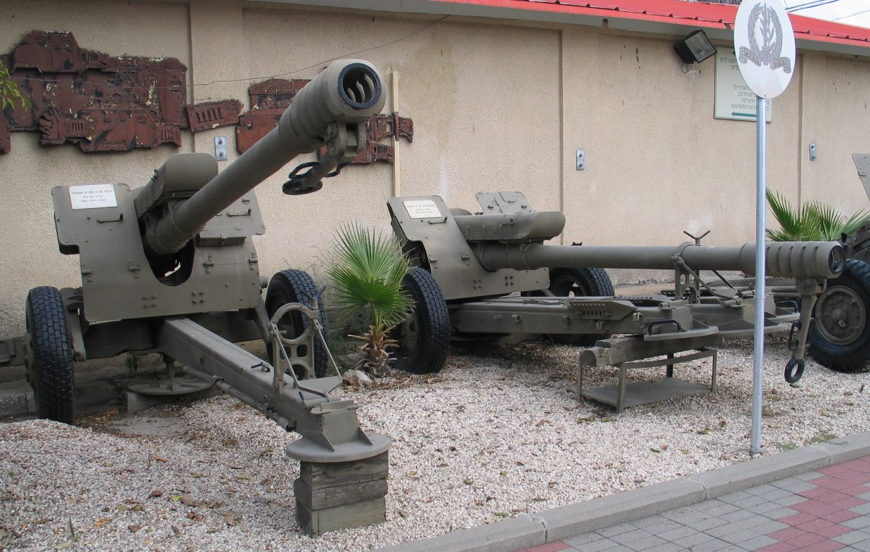 Description: Two Soviet D-30 howitzers in Batey ha-Osef Museum, Tel Aviv, Israel. 2005. Source: Photo by me, User:Bukvoed.